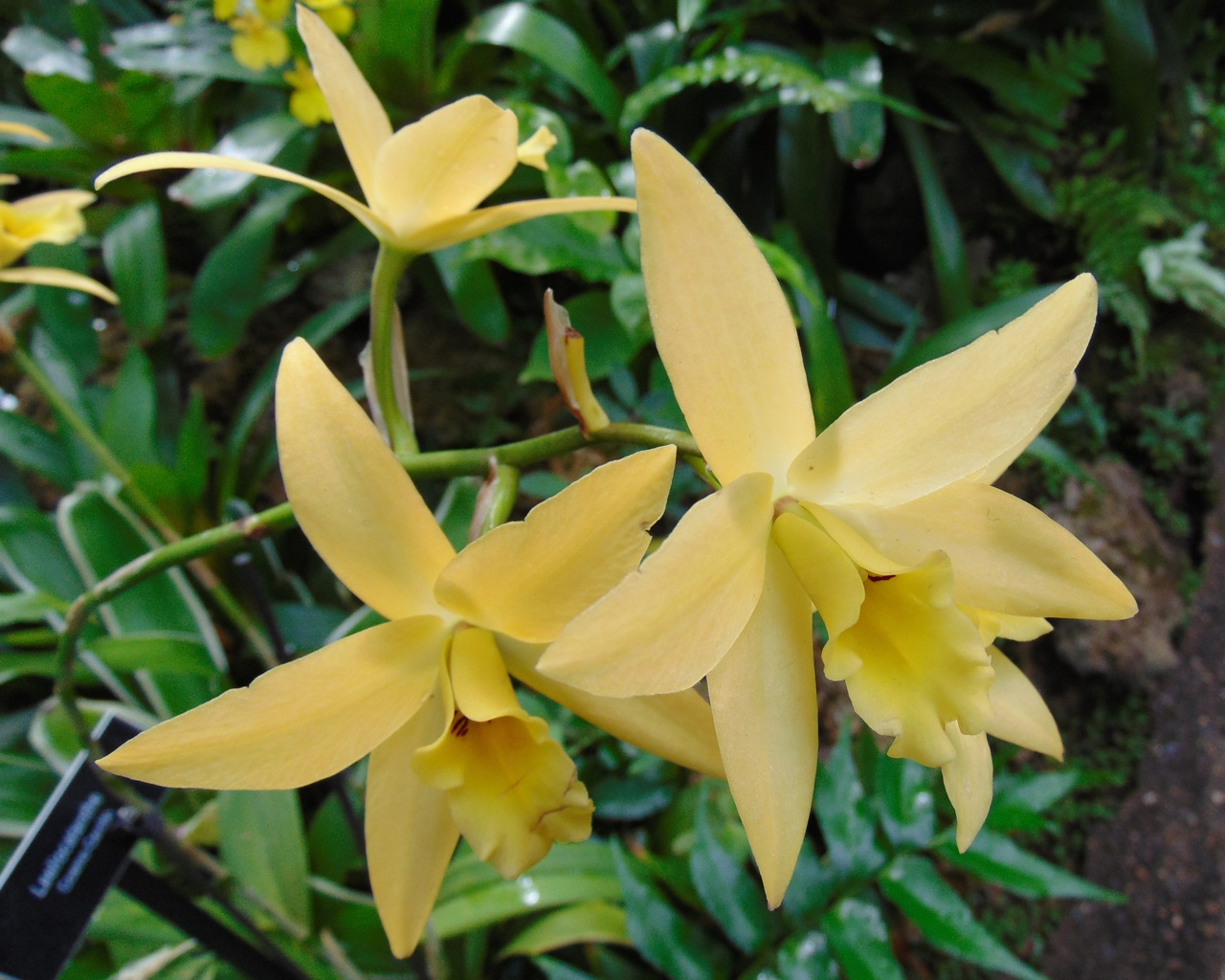 Laeliocatanthe Cosmo-Cerrito Please respect author's moral rights by not changing this description or the image title.